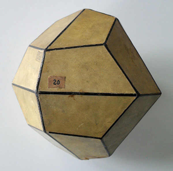 Object in the model collection of the working group crystallography of the Department of Physics, Humboldt Huniversity Berlin .see also [1] for more information on the models